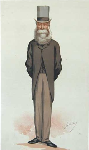 Caricature of Clare Sewell Read. Caption read "A tenant Farmer".